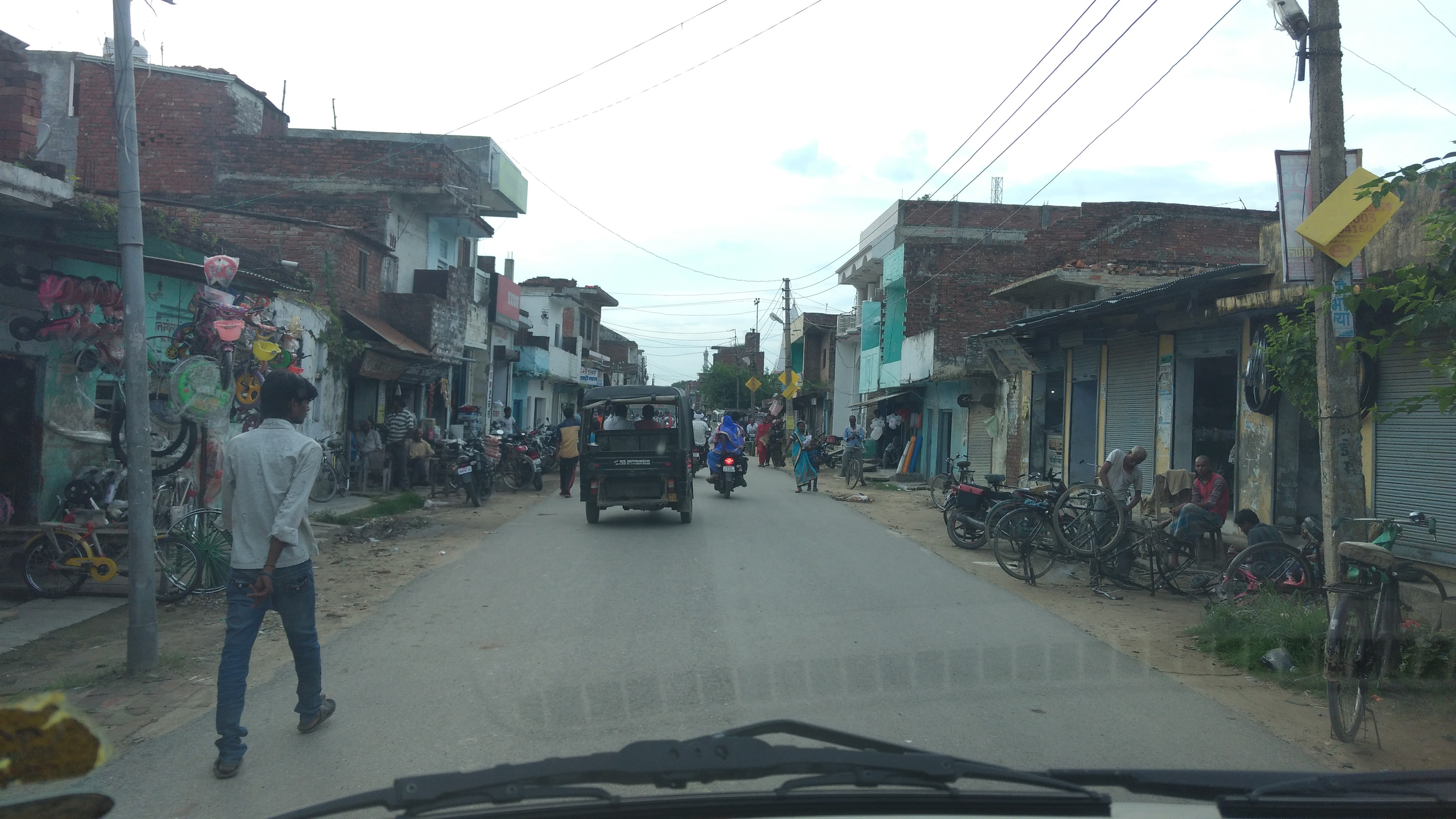 This is Jahangirganj Market Photo